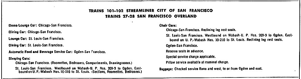 Consolidated consists of Streamliner City of San Francisco TR 101-102 and San Francisco Overland Limited TR 27-28 effective July 16, 1962